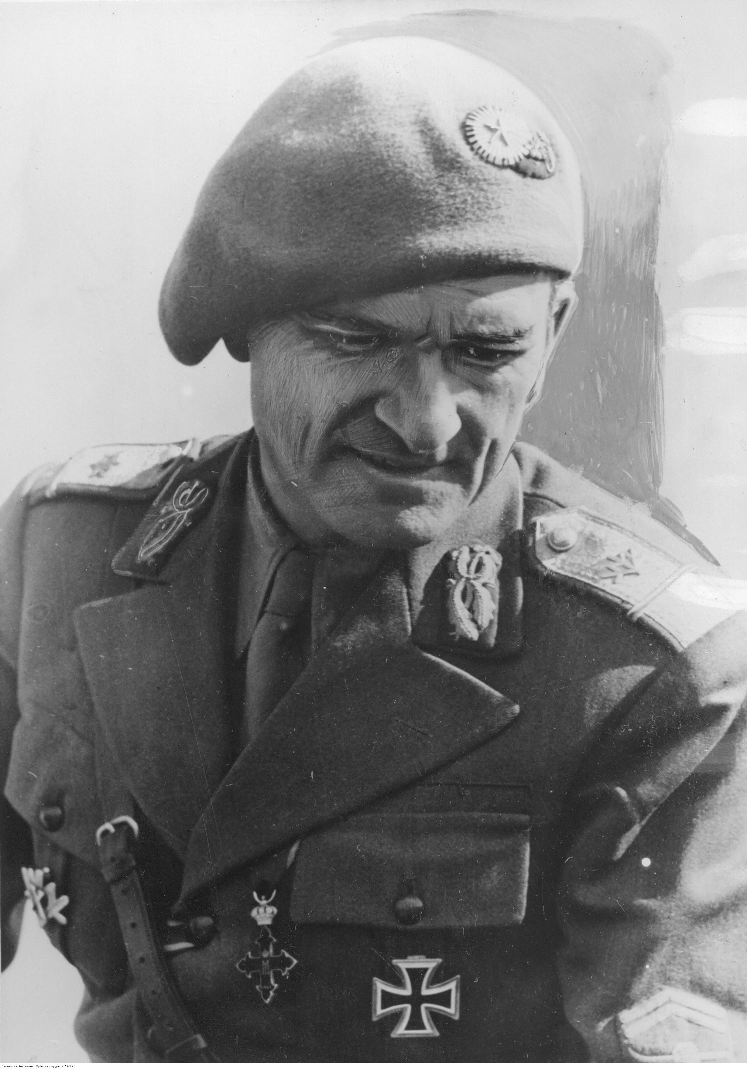 Lieutenant General Ioan Dumitrache, commander of the 2nd Mountain Division, decorated "Knight's Cross" for combat operations during the conquest of the town of Nalchik. Situational photography.